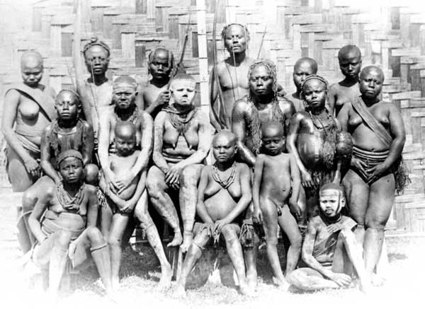 An early (staged) photograph to show Great Andamanese women (and the odd male) with a wide variety of hairstyles and body painting patterns. Clearly visible are only the wide variety of hair cuts. Notable also on the extreme left and right two women with bands for carrying infants. The people to the left of the centre pole are said to be showing body paint signifying mourning, those on the right celebratory paint. The girl, second from the right, in the middle row is said to be painted in red ochre as a sign for rejoicing. Citation from Clothes, Clay and Beautycare (of Great Andamanese people), by George Weber